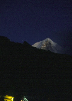 A night phot form the base camp toward Dorj Lakpa, Lantang Himal, Nepal